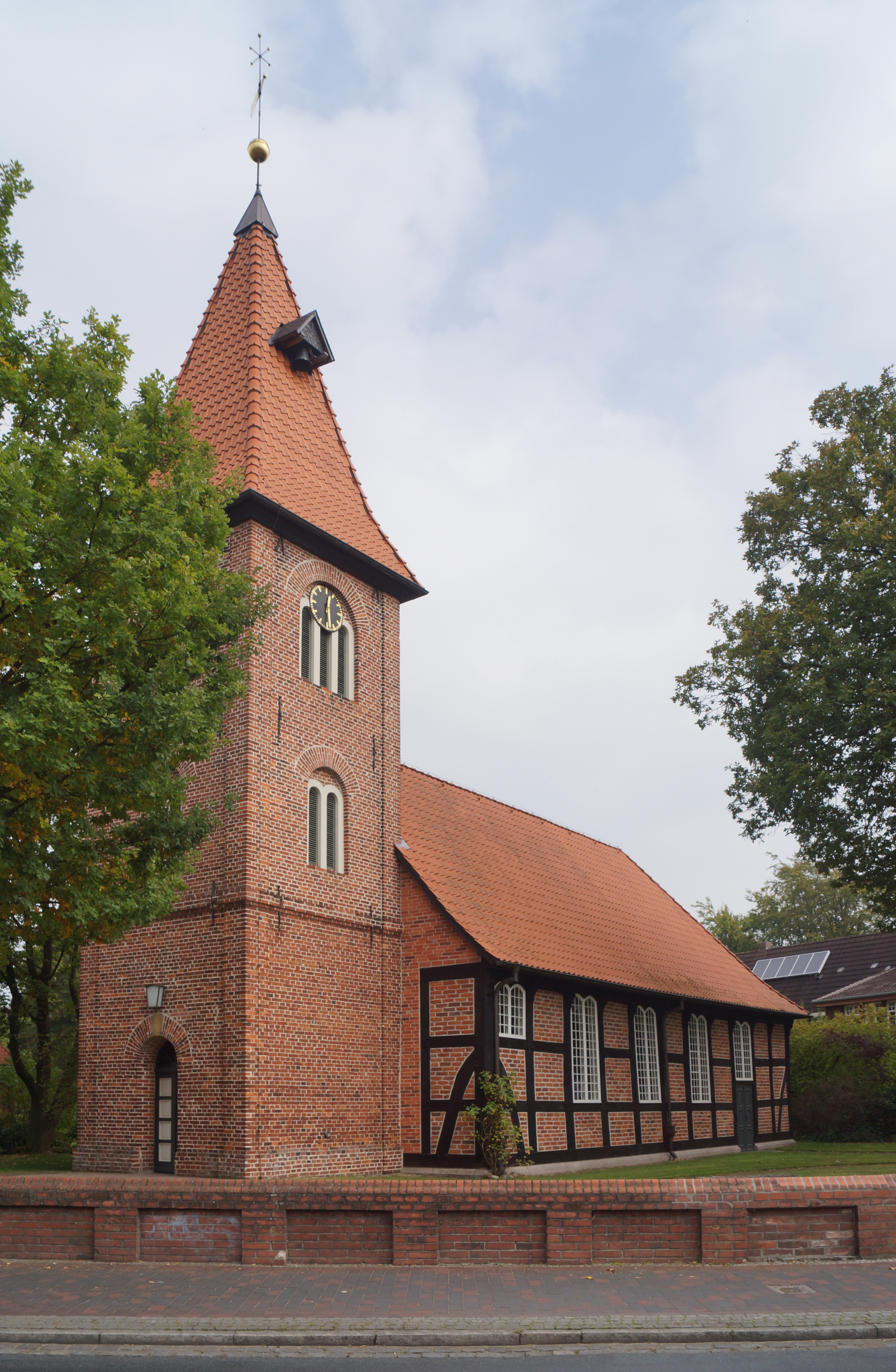 Ottersberg, Germany: South side of the Saint Christopher Church